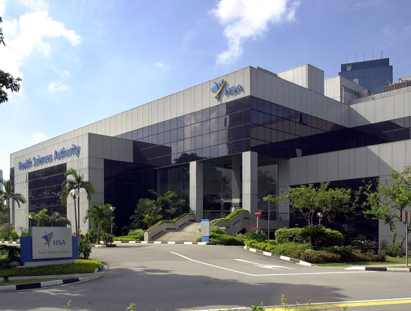 Image of Health Sciences Authority HQ Building